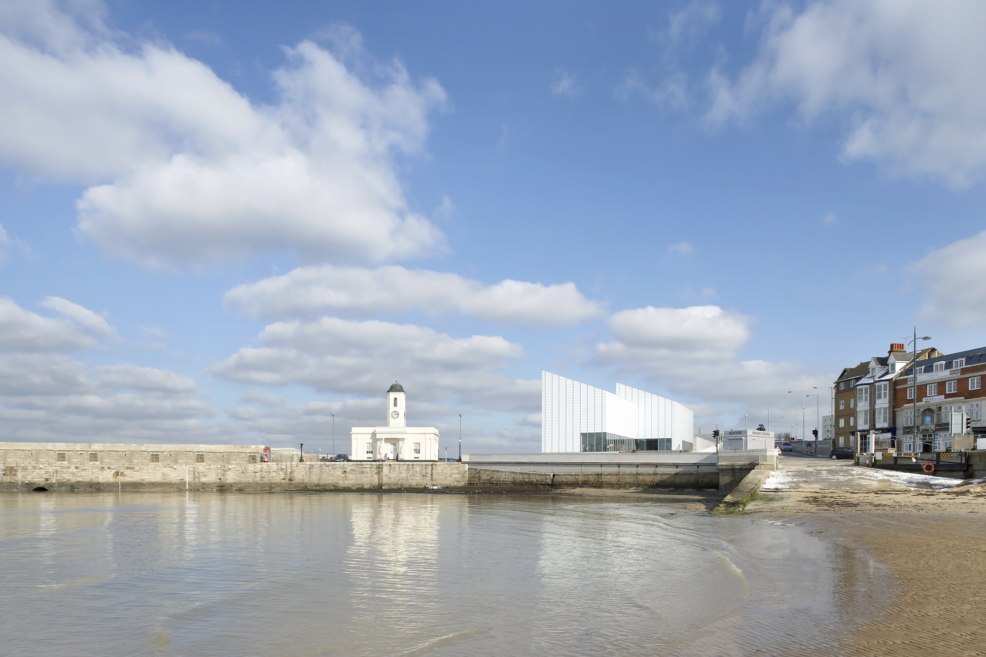 Turner Contemporary. Photo Hufton + Crow